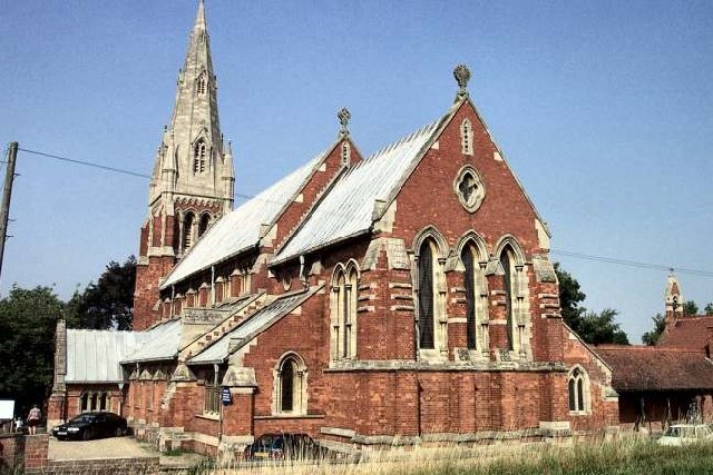 St. Paul, Fulney.